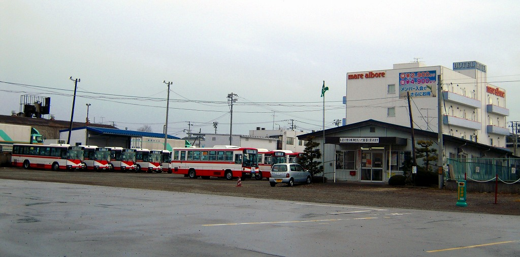 Old Miyakoh Bus Shiogama Depot